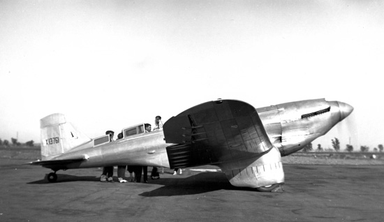 Catalog #: 00069786 Manufacturer: Northrop Designation: 2G Official Nickname: Gamma Notes: w/ Curtiss Conqueror for Jackie Cochran, later w/ P&W Twin Wasp Jr, Wright Cyclone Repository: San Diego Air and Space Museum Archive